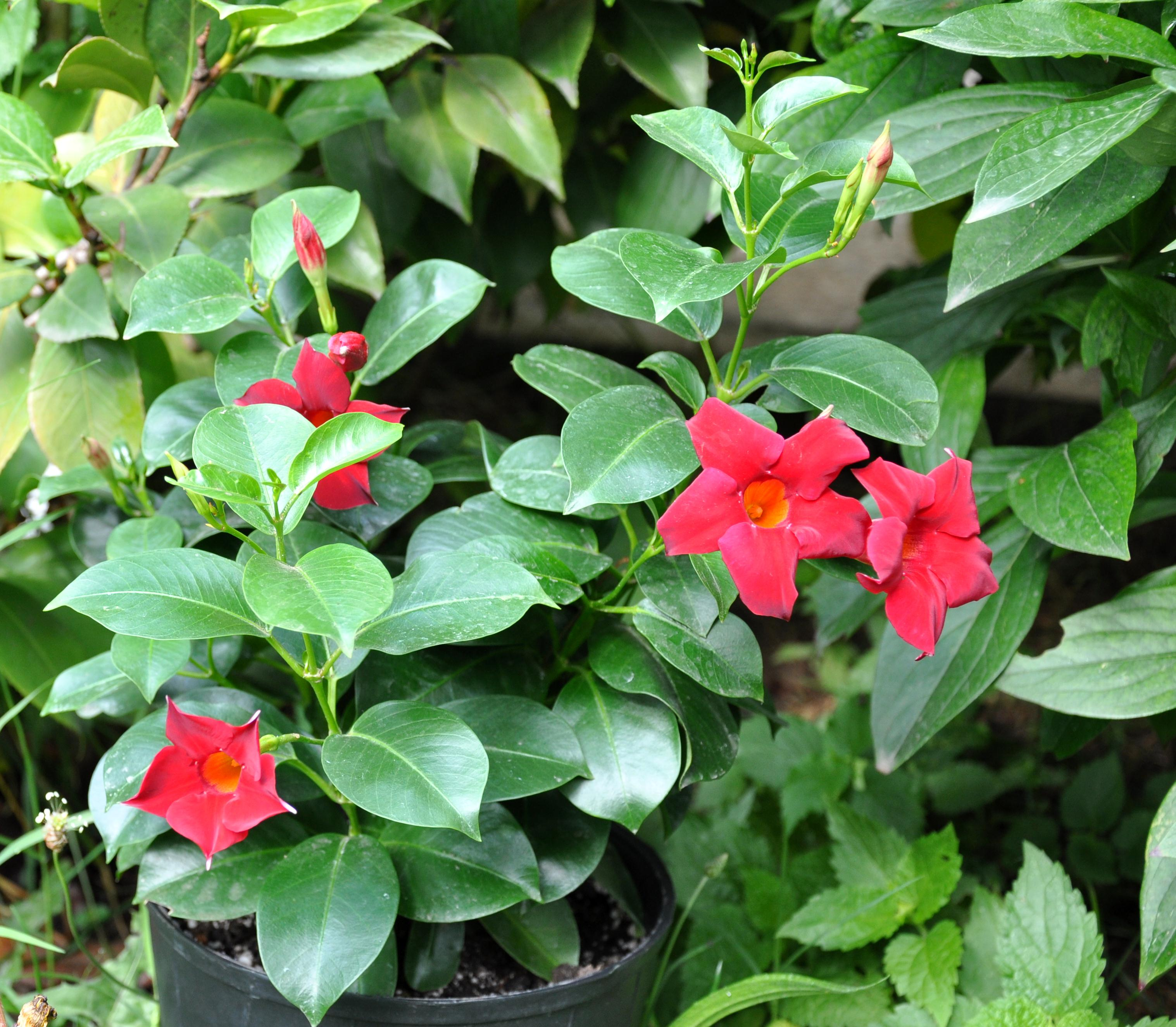 Taken in Mtskheta